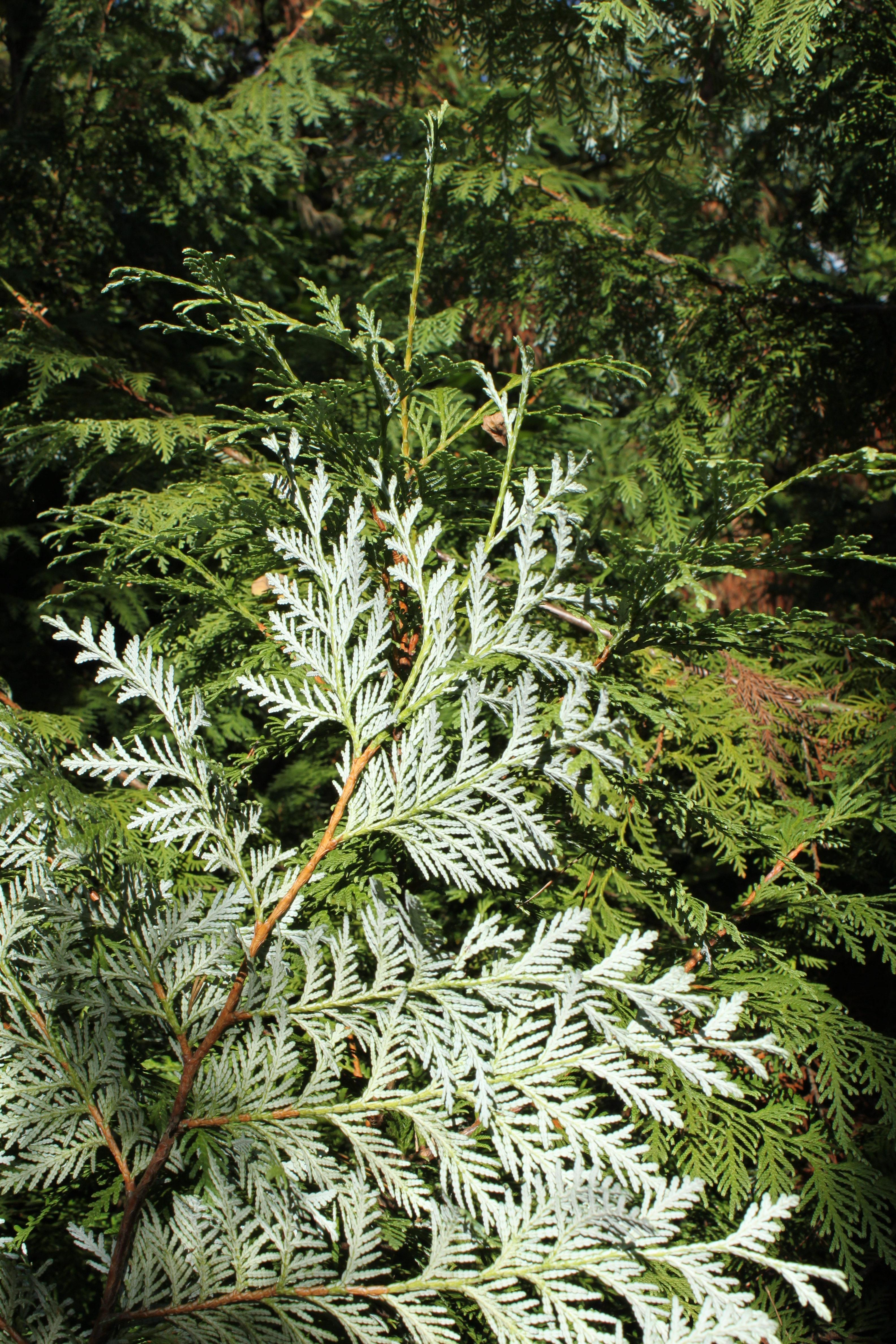 Thuja koraiensis foliage in Arboretum in PAN Botanical Garden in Warsaw, Poland